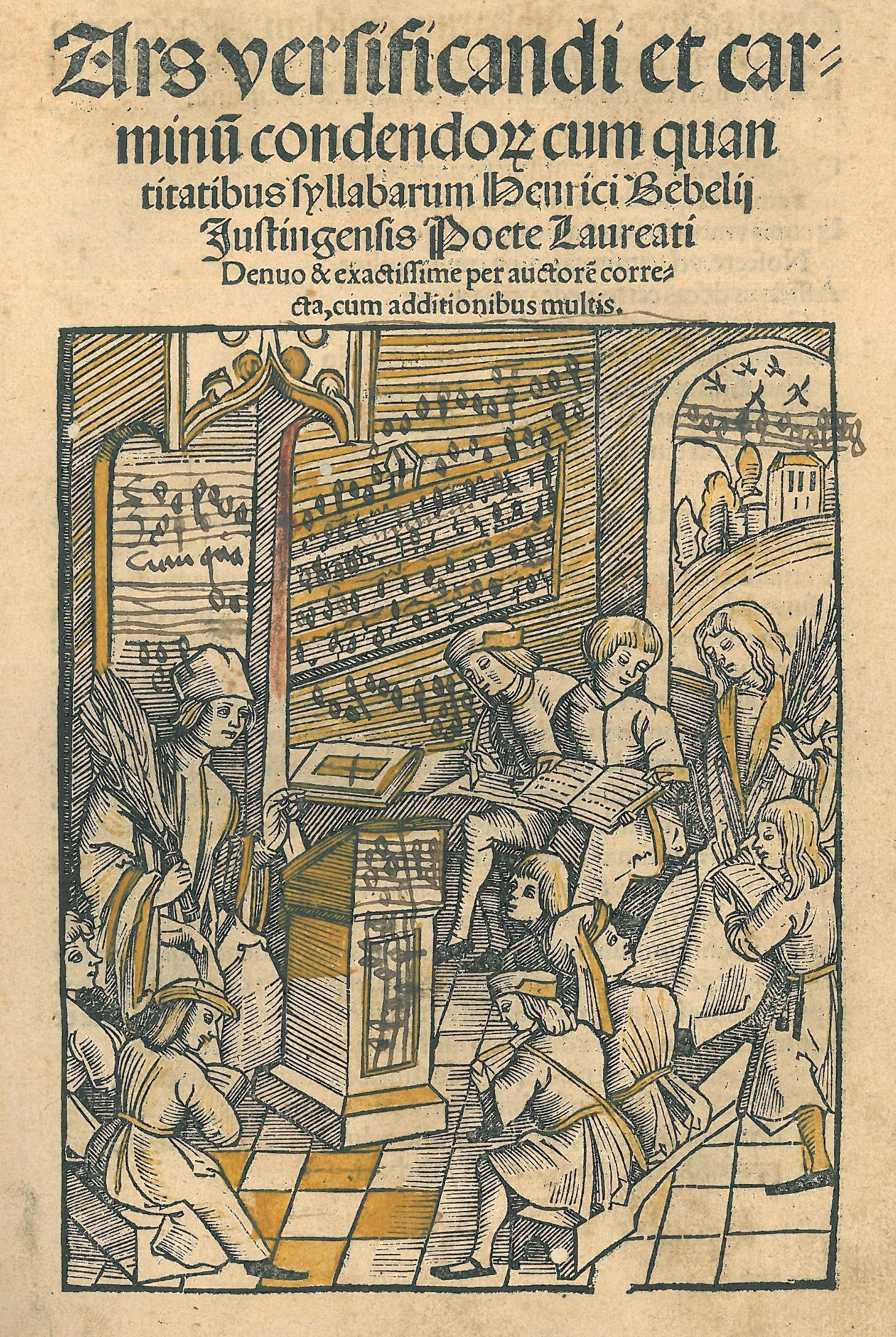 Academic lecture at the university of Tübingen, 1519; the picture intends to show Heinrich Bebel giving a lecture to his students.